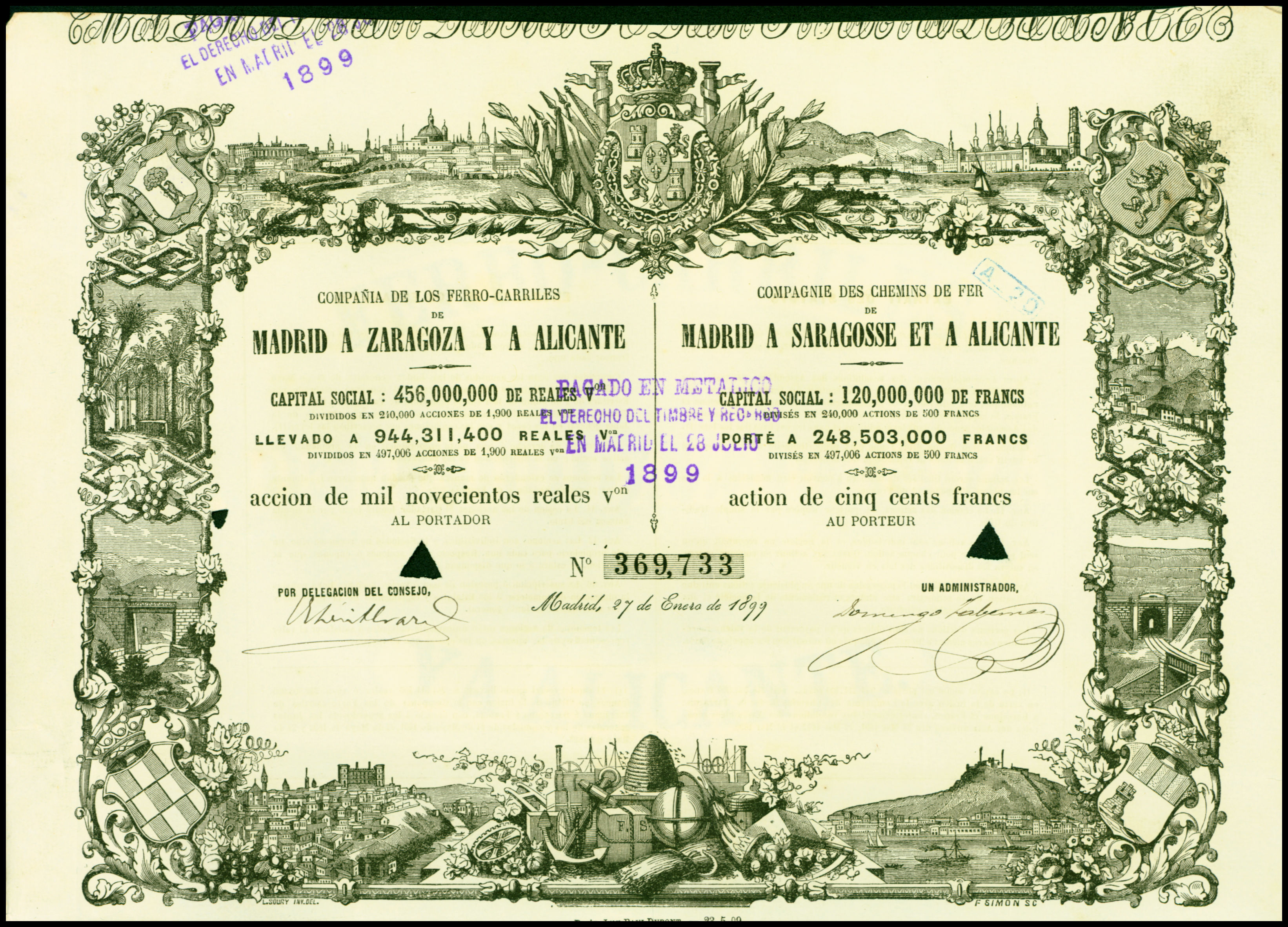 Share of the Compañía de los ferro-carriles de Madrid a Zaragoza y Alicante, issued 27. January 1899